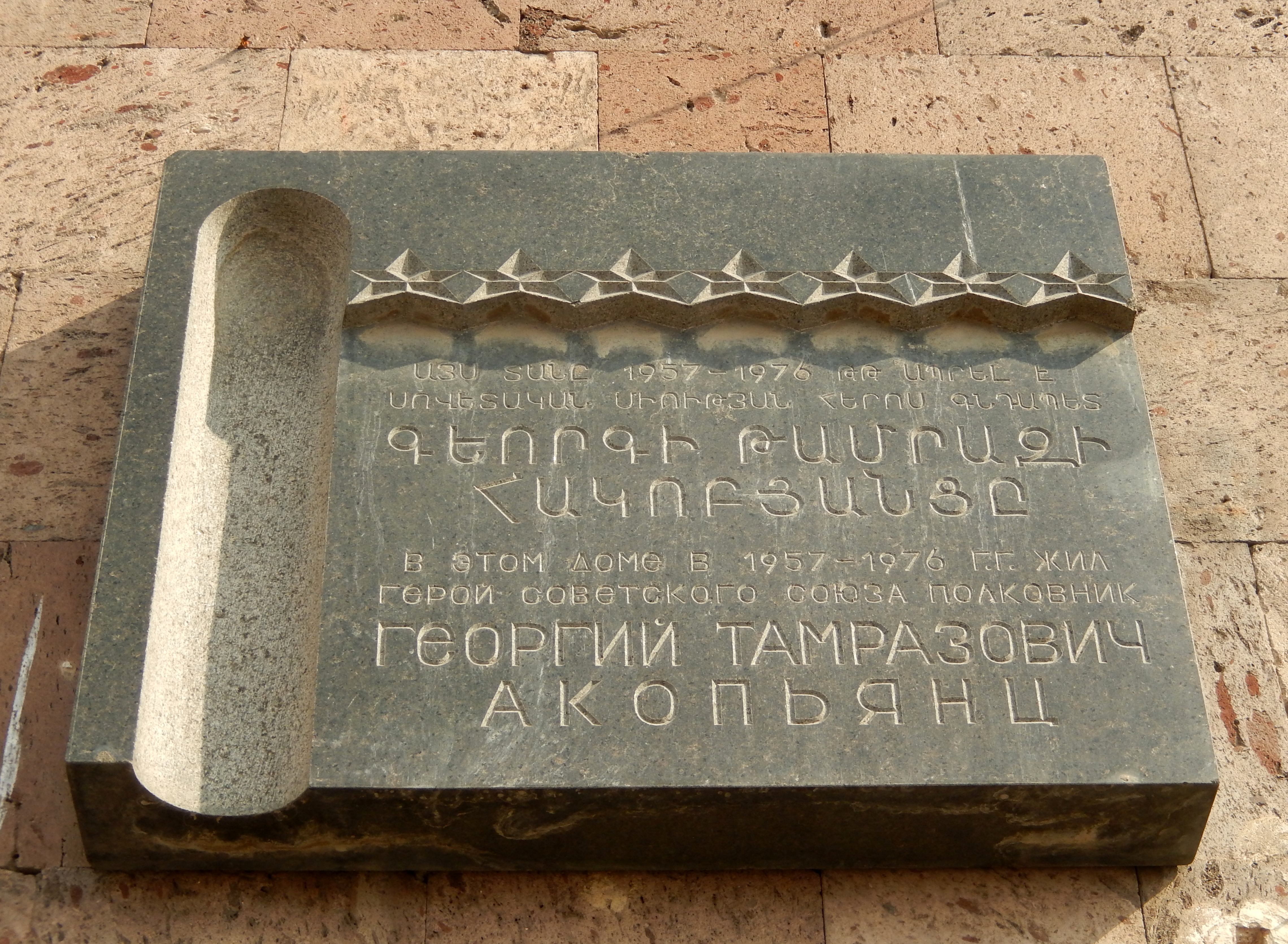 Georgi Hakobyants